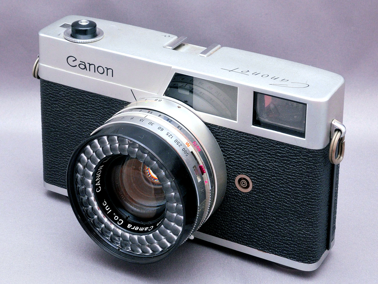 Canon Canonet (1961)